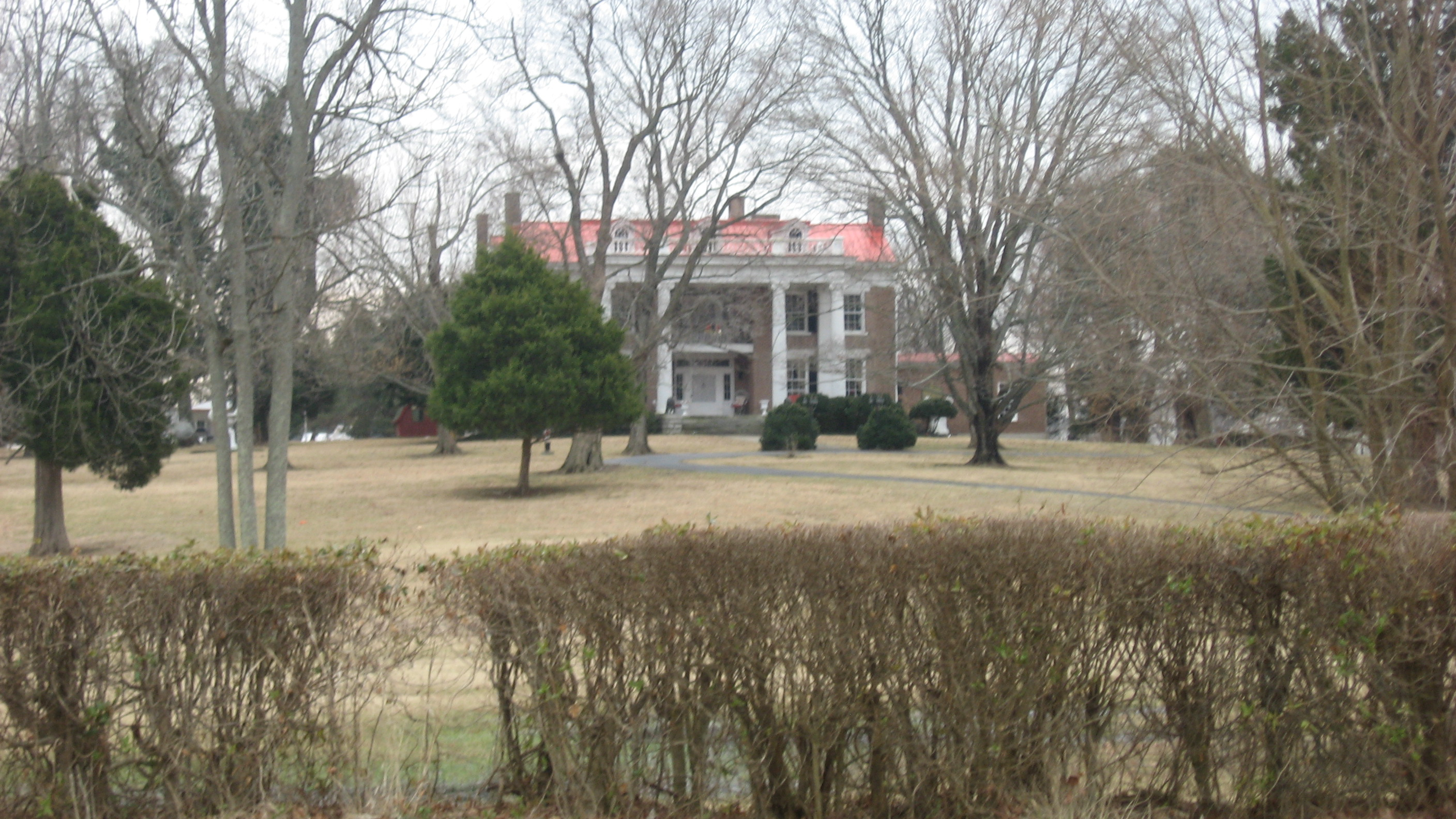 Distant view from the north of McCutchen Meadows, located on the southern side of U.S. Route 68 east of Auburn in Logan County, Kentucky, United States. Built in 1825, it is listed on the National Register of Historic Places.